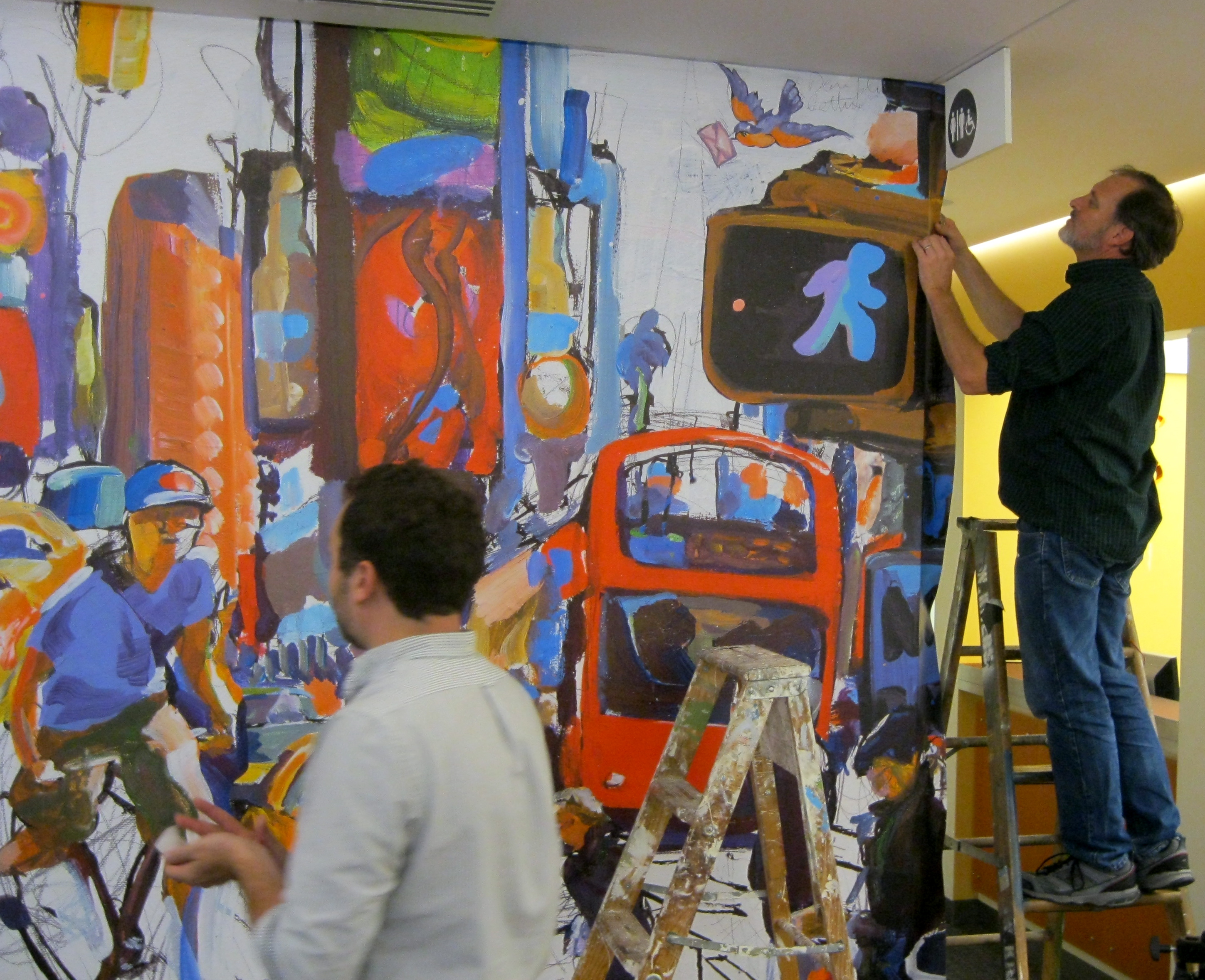 Members of Everett Studios install adhesive vinyl mural in NYU Children's Psychiatric Hospital of New York, New York.